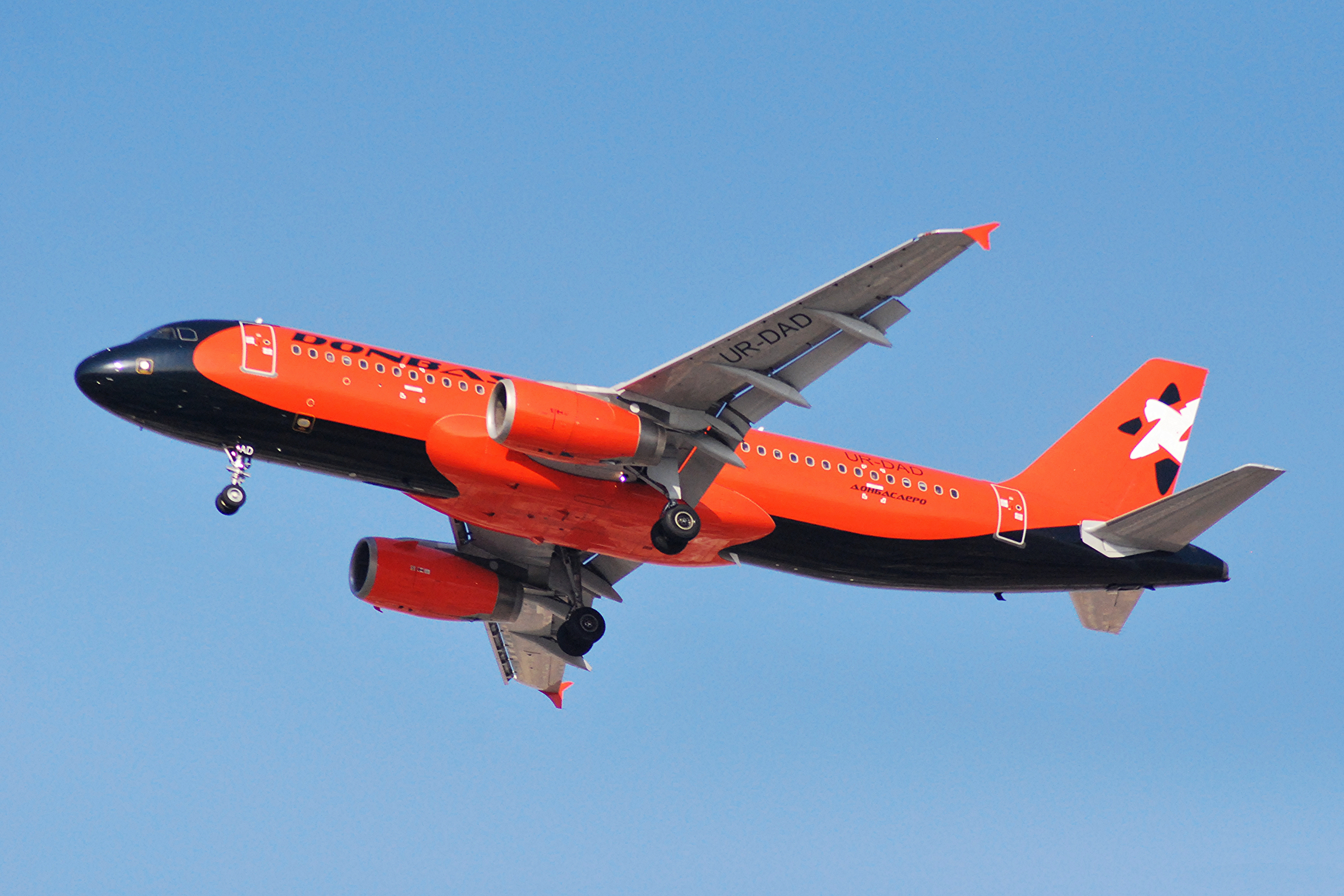 Registration: UR-DAD Airline: Donbassaero (operating for AeroSvit) Aircraft: Airbus A320-233 Construction Number (MSN): 747 Delivery: 04-04-2008 Flight Details: VV 4275 / Boryspil International Airport (KBP) - Dubai International Airport (DXB) Like my Facebook fan page